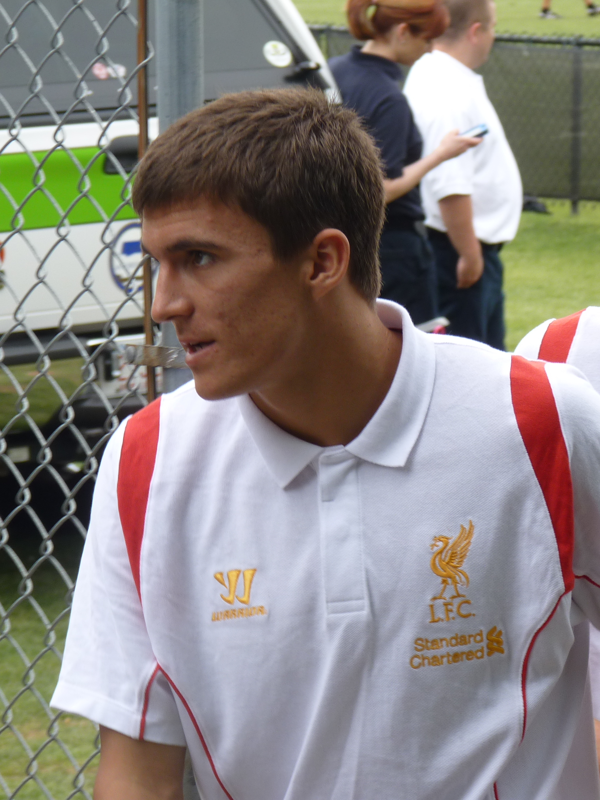 Adam Morgan and Jack Robinson during Liverpool FC tour in USA